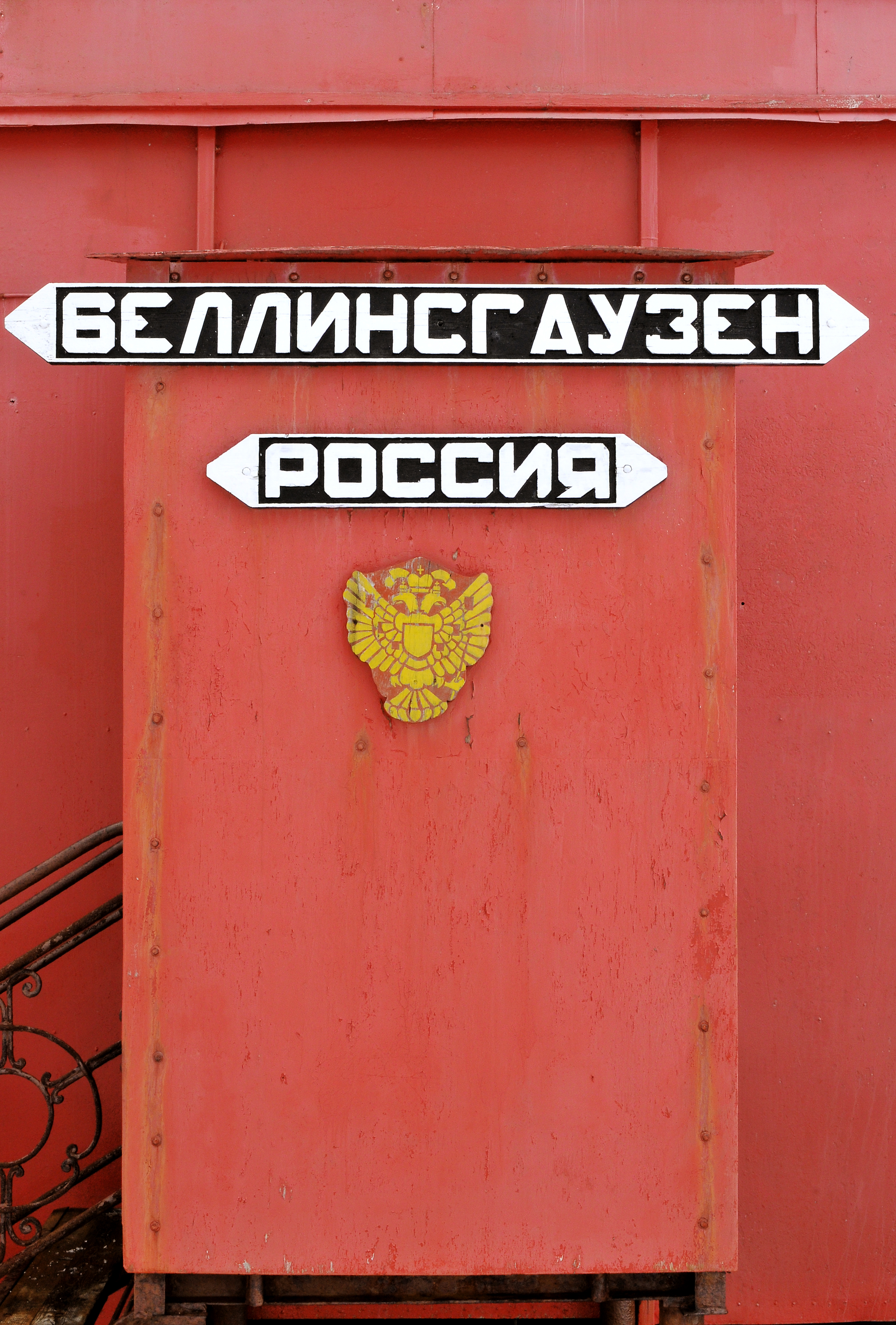 Sign of the "Bellingshausen" russian station. King George Island, South Shetland Islands, Antarctica